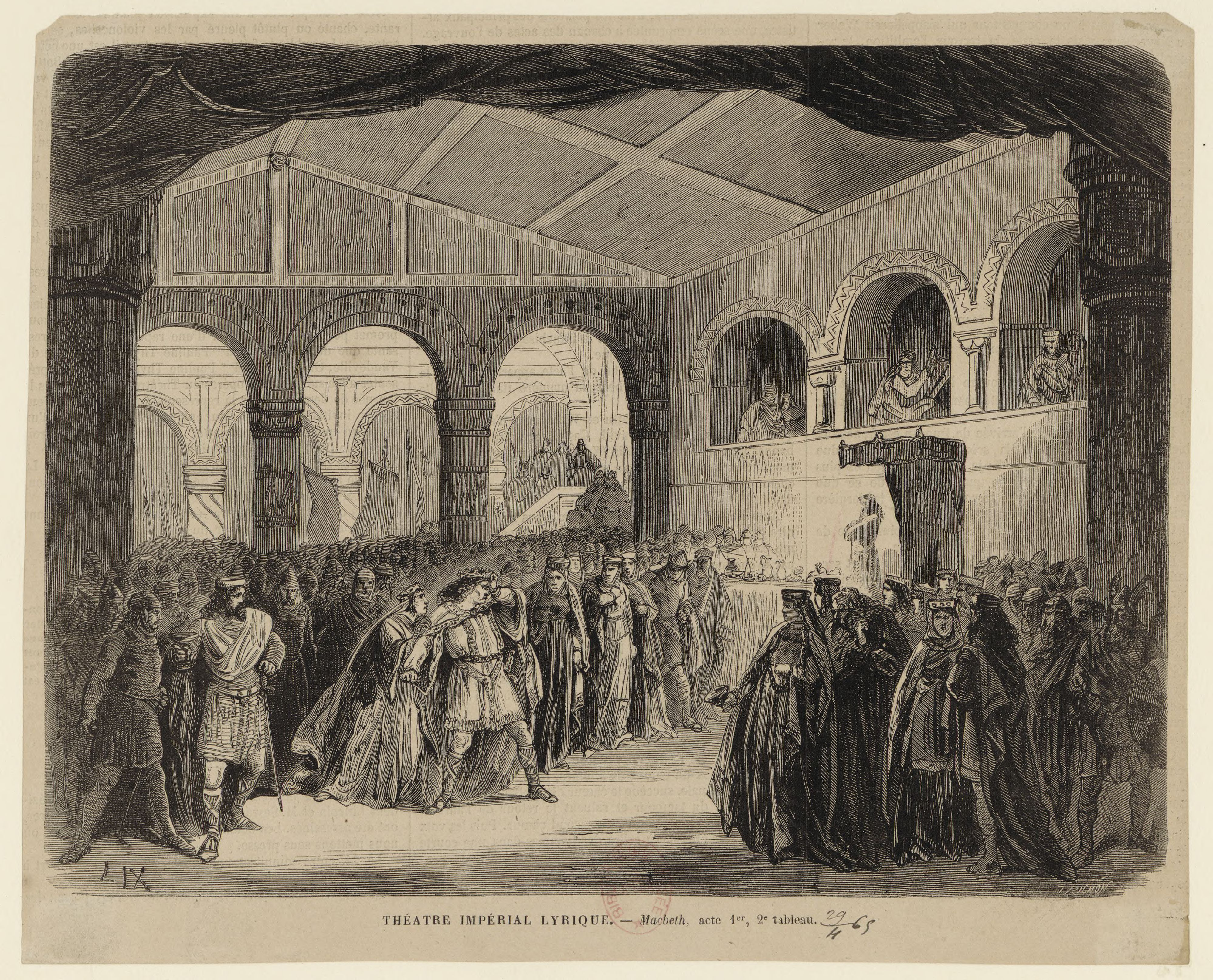 Illustration to Act I, Scene 2 of the première of the 1865 revision of Giuseppe Verdi's Macbeth.